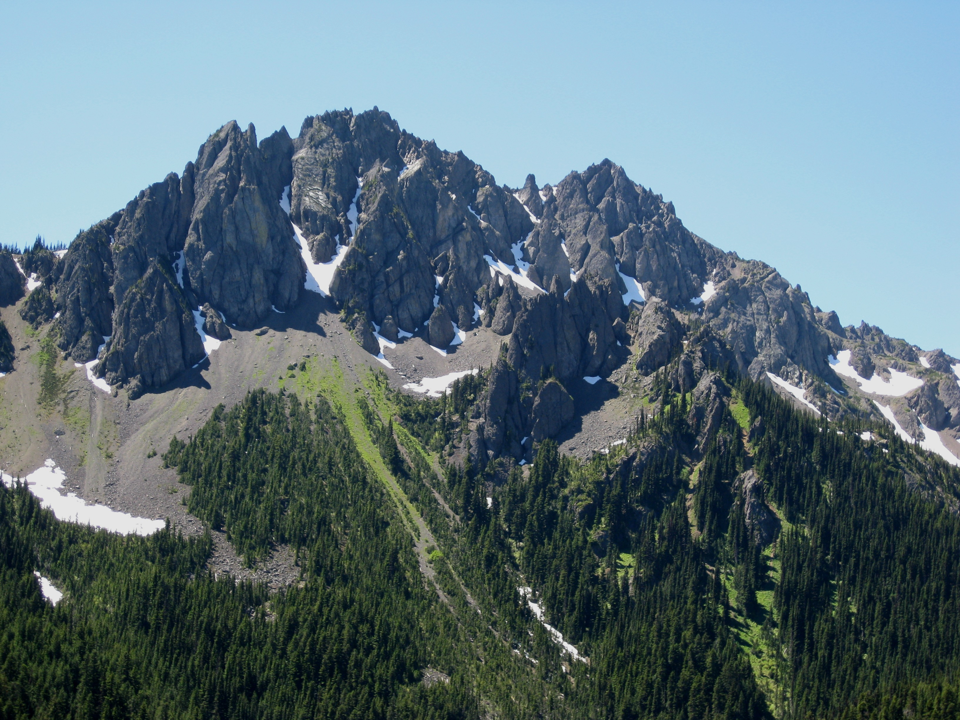 Boulder Ridge viewed ascending to Marmot Pass